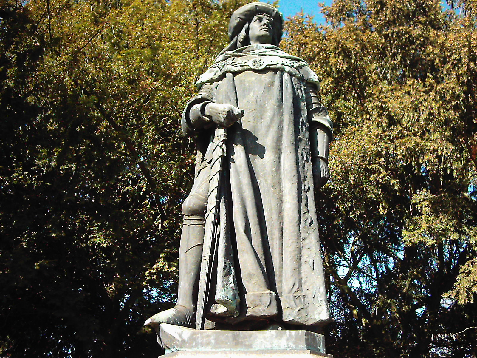 Statue of Elector Frederick I of Brandeburg on acropolis hill in Tangermünde